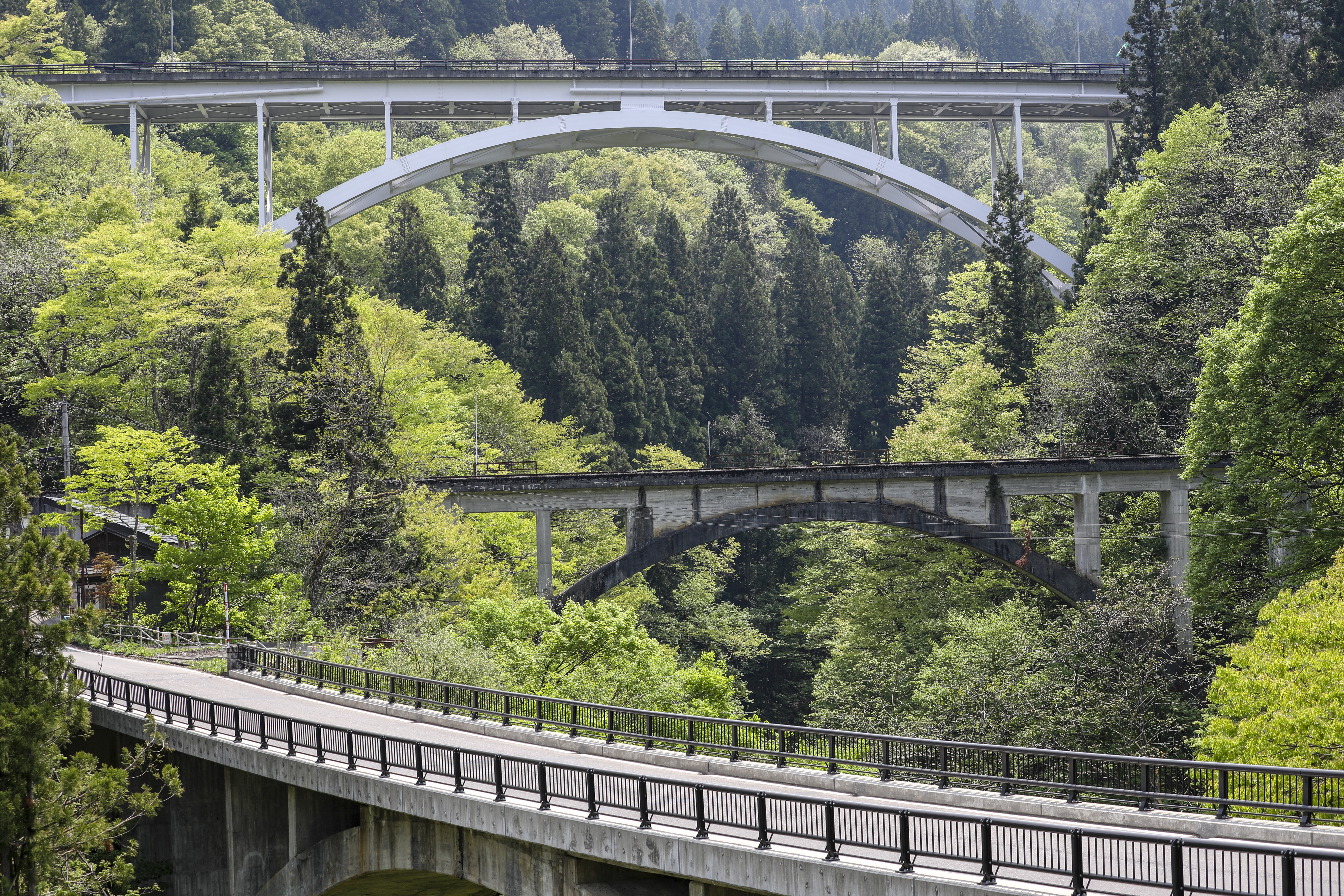 3 Bridges near Aizu-Miyashita Station in Fukushima prefecture, Japan.